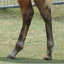 Phenotypic description of Silver colored horses. (Horse coat colors: Silver dapple gene) D. The legs of a Brown Silver horse. The lower legs are diluted from black to greyish. Photo: Laura Behning.